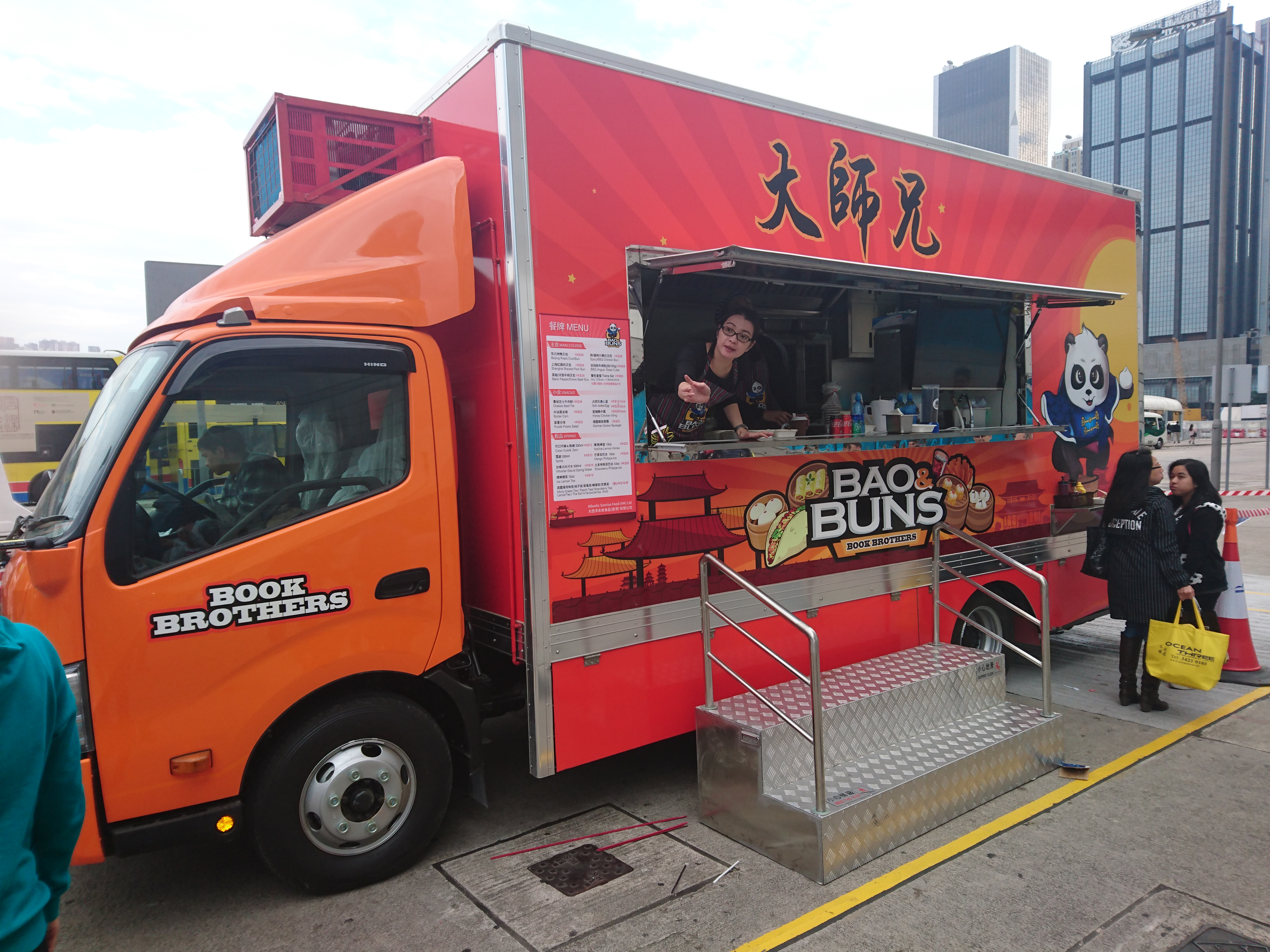 Book Brothers Food Truck in Golden Bauhinia Square